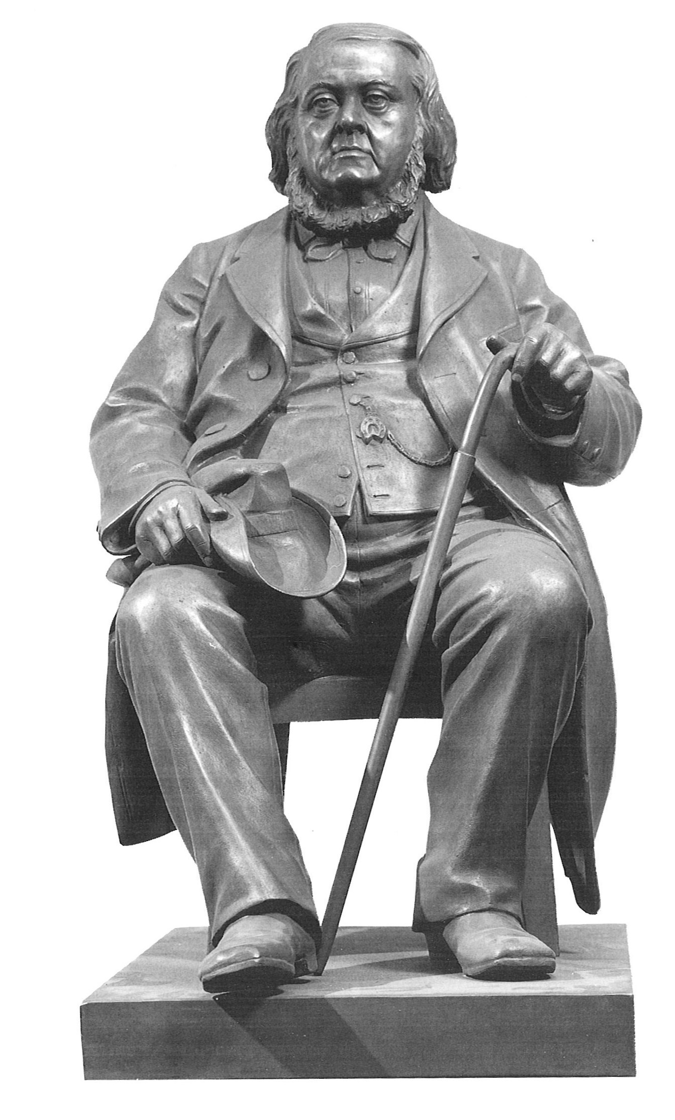 Sculpture of norwegian author Peter Christen Asbjørnsen (1812-1885) by norwegian sculptor Brynjulf Bergslien (1830-1898); made 1885; sketch owned by Nasjonalgalleriet